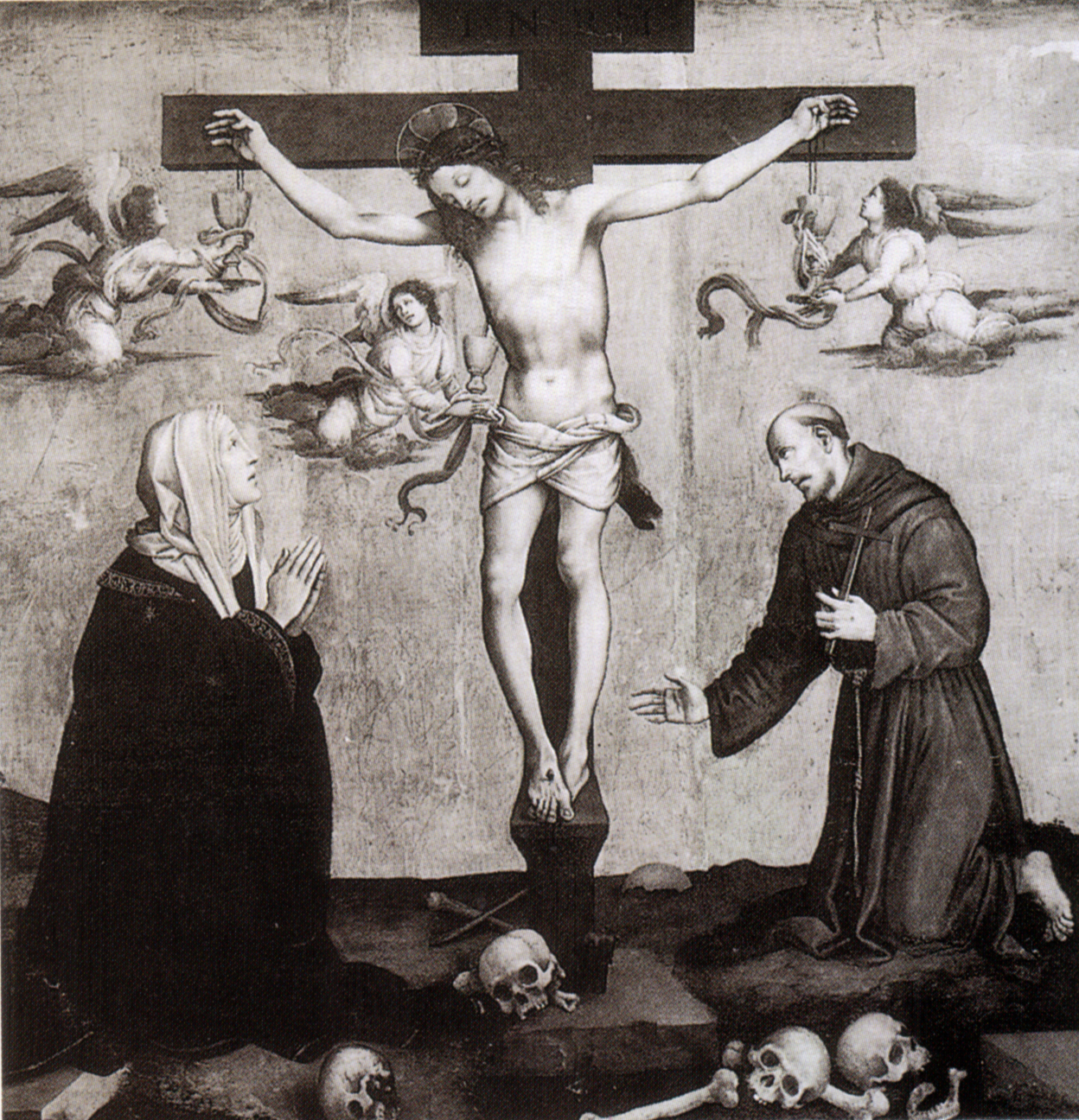 Crucifixion by Filippino Lippi, Once in Staatliche Museen zu Berlin, destroyed during II W.W.